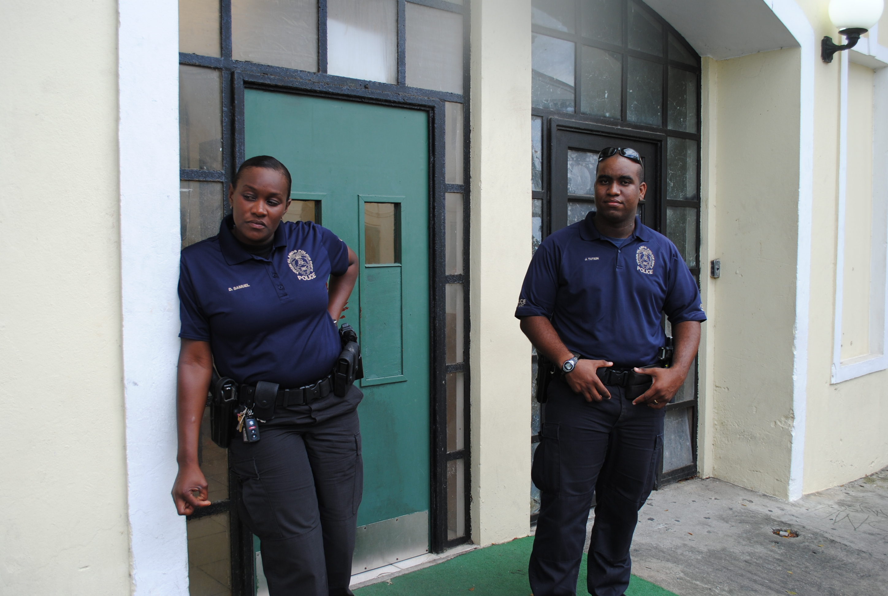 United States Virgin Islands Police Department U.S.V.I.P.D. officers in Christianstad, St. Croix.